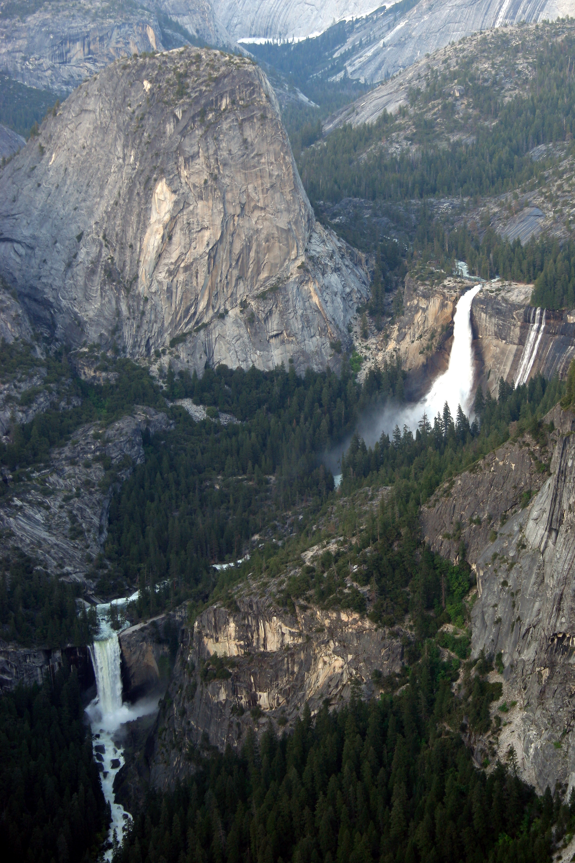 Vernal (lower left) and Nevada (center right) waterfalls in Yosemite National Park as seen from Glacier Point.